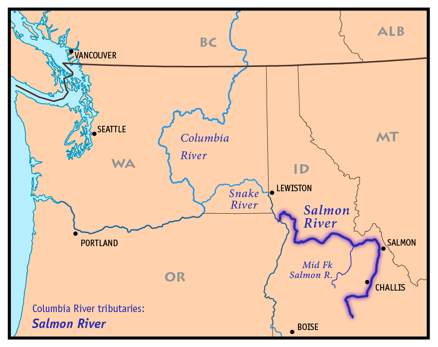 This is a map of the Salmon River of Idaho. I, Pfly, created it based on USGS and Digital Chart of the World data.